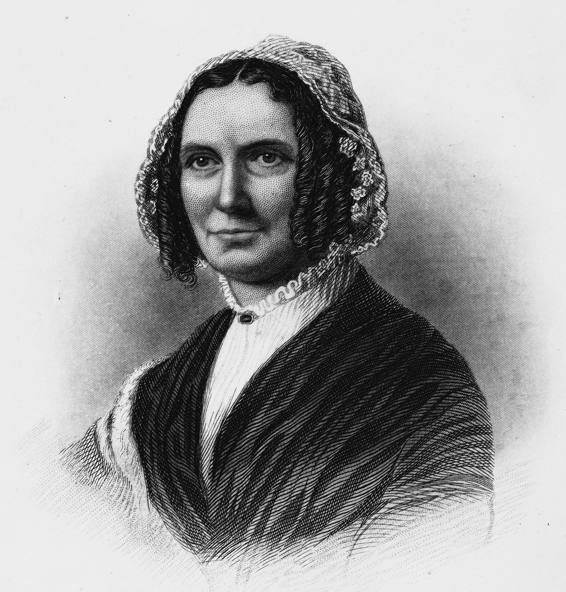 Abigail Fillmore. Reproduction of late 19th century engraving.